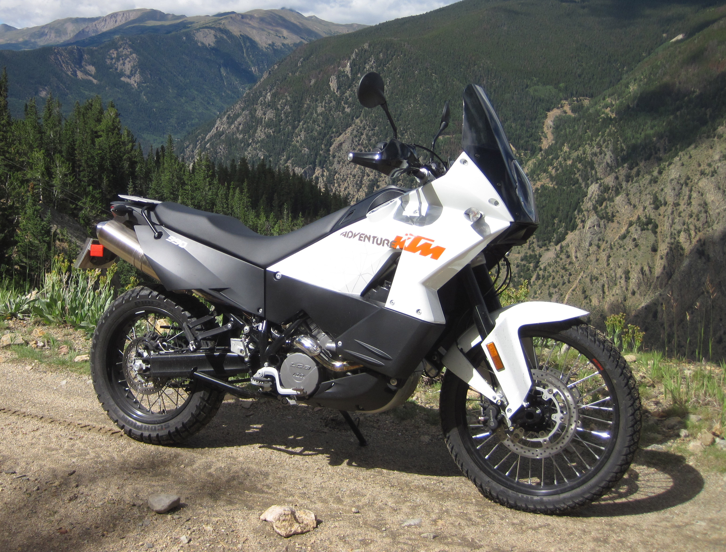 KTM 990 Adventure in mountains